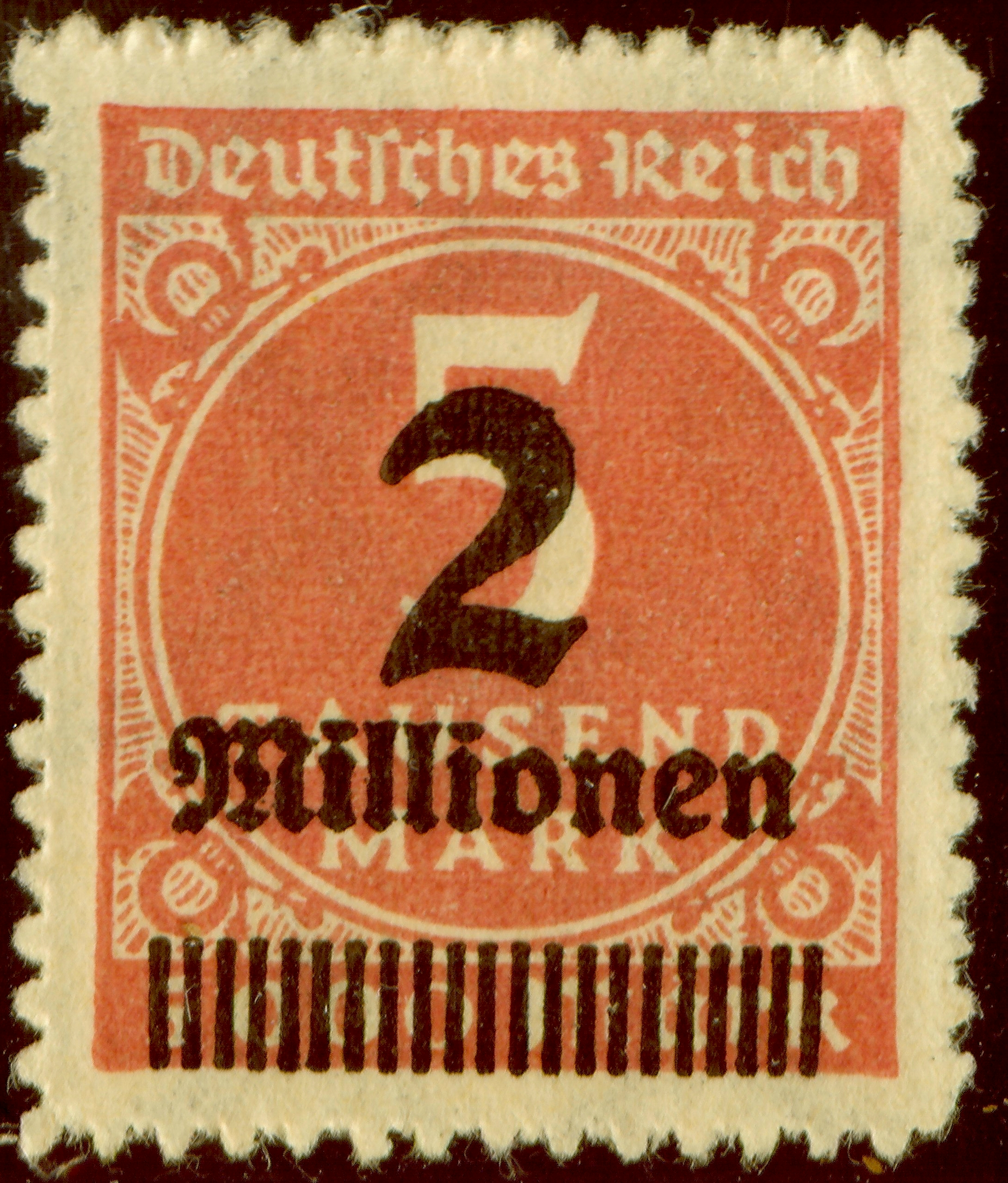 An overprinted stamp of Germany, Scott no. 278, from october 1923[1]. Surcharge '5 Million' on 2 Thousand Marks.